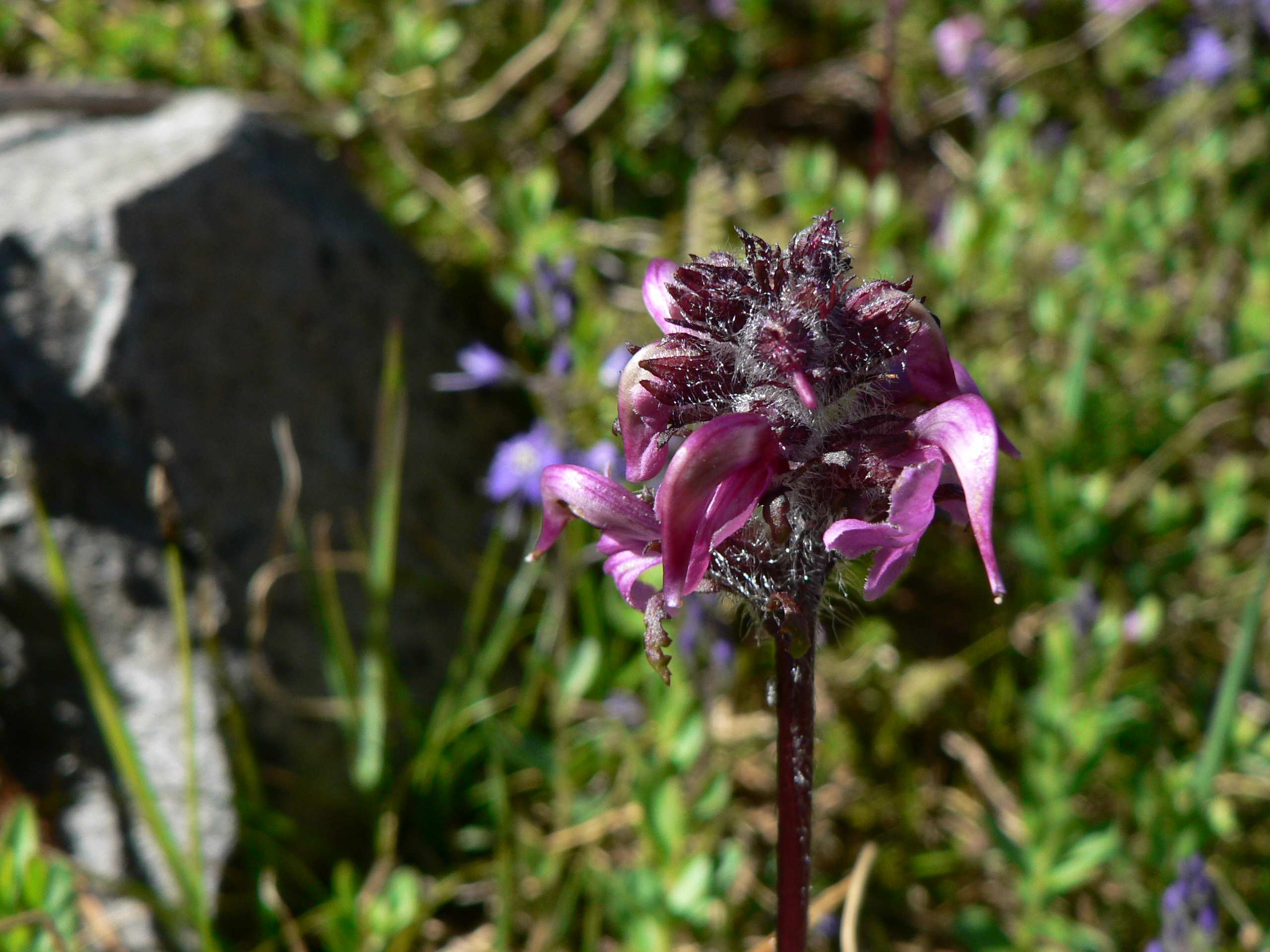 Ducksbill Lousewort, Bird's Beak Lousewort